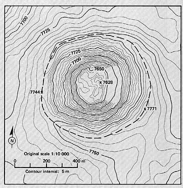 Topographic contour map of South Ray crater, on the moon. This is Figure 106 of Apollo Over the Moon (NASA SP-362, 1978), which has the following caption: Another view of the crater South Ray. This detailed topographic map was prepared under the supervision of S. S. C. Wu of the U.S. Geological Survey by photogrammetric techniques. Prepared from a stereo pair of panoramic camera photographs, it is one of the largest scale maps ever done with Apollo orbital images. The area shown here is a small part of a map that was used for compiling geologic data from the Apollo 16 mission. Dashed lines have been added to the original map to show the crest of South Ray's rim. From this type of topographic representation, the width, depth, slope of the walls, and other parameters can be measured. For example, the maximum depth of the crater, measured from the high point on the rim (7771 m) to the low point in the floor (7628 m), is 143 m. -G.W.C.